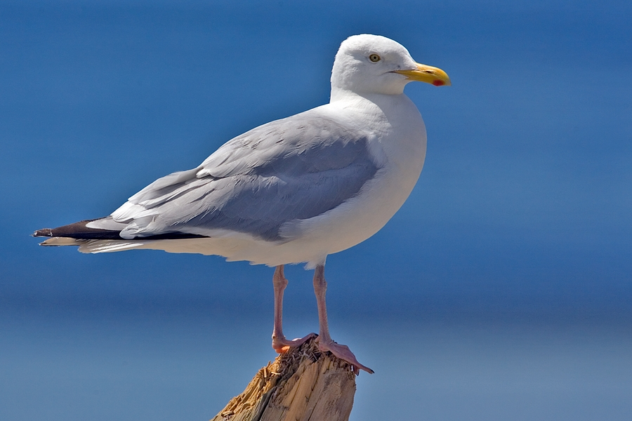 American Herring Gull, Bonaventure Island, Quebec - early August 2006